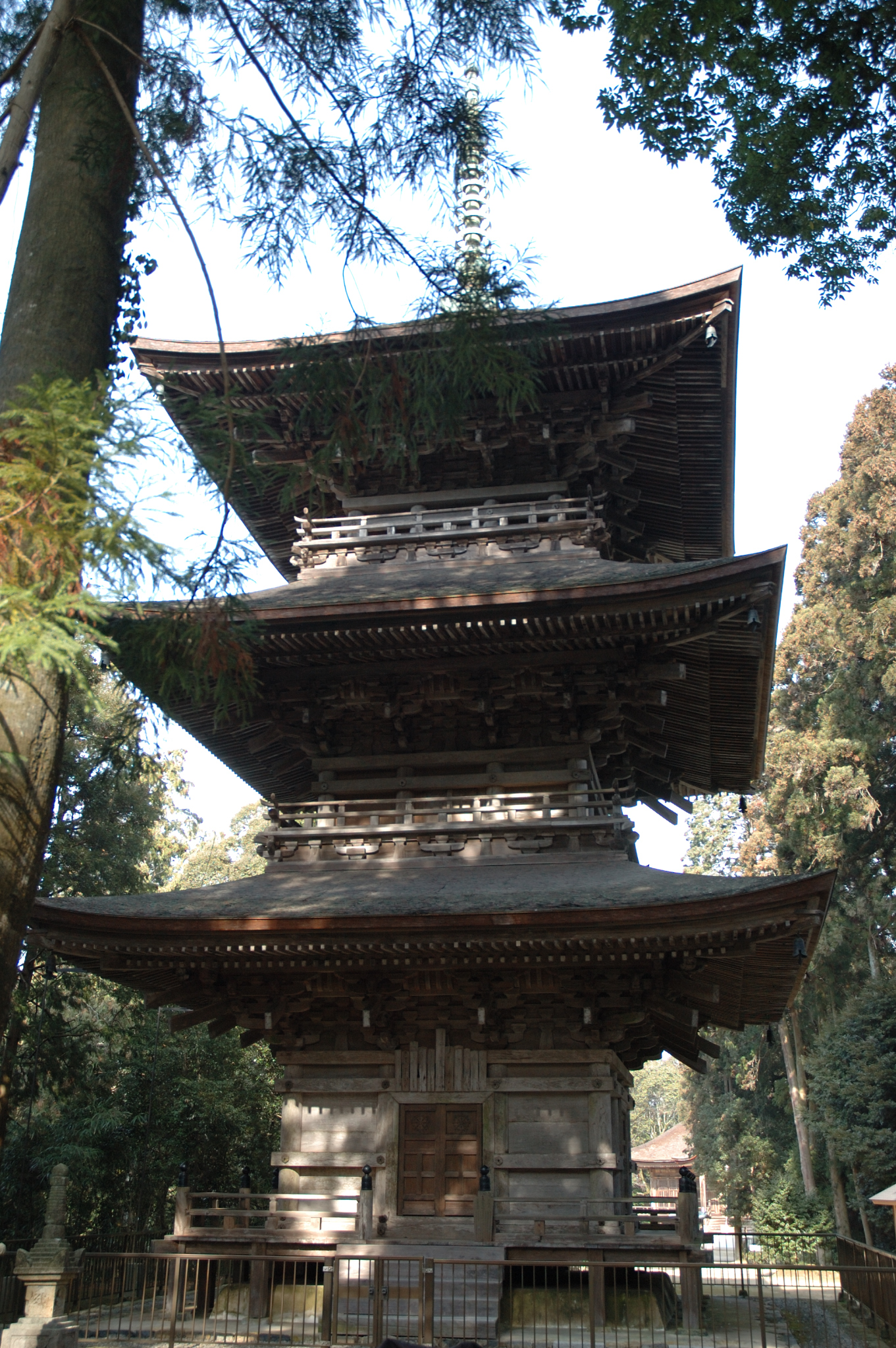 a three-storied pagoda (built in 1652) and Hokyointo (lower left, built in 1335), both are designated as national important cultural property by the Japanese government